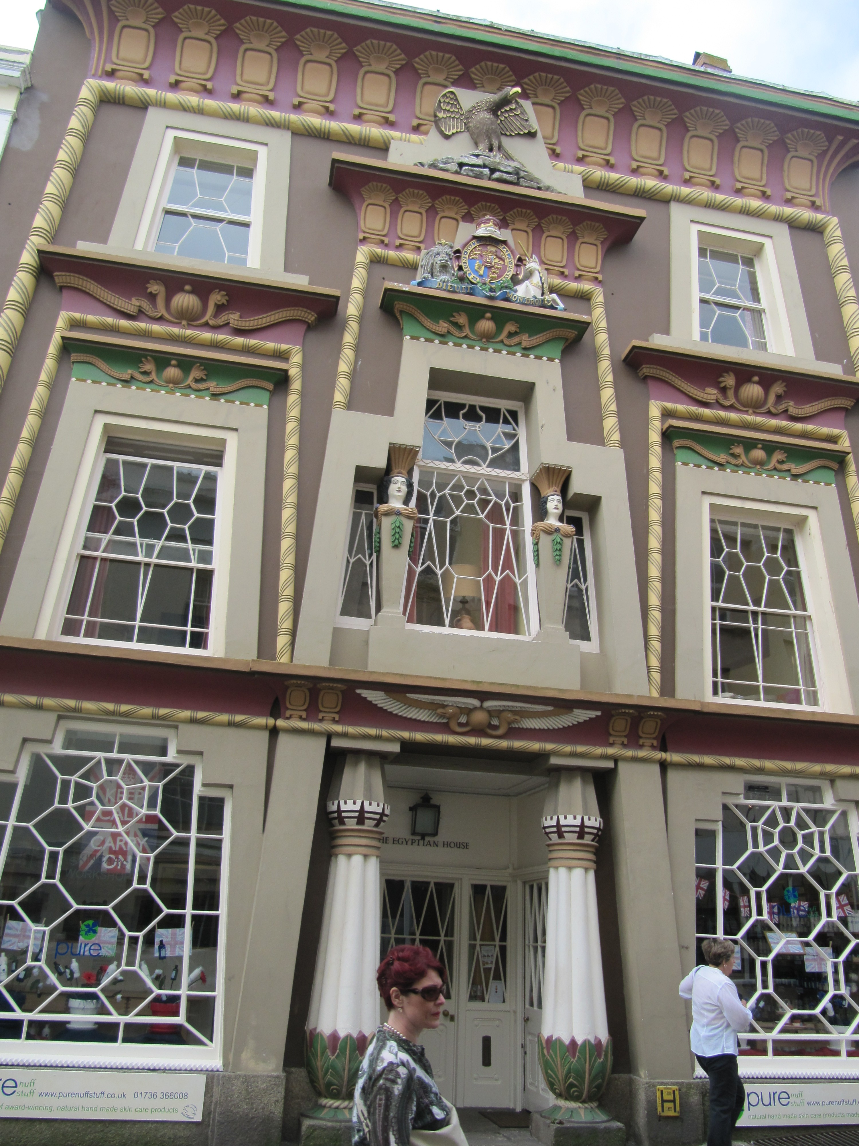 Penzance, Chapel Street, Egyptian house